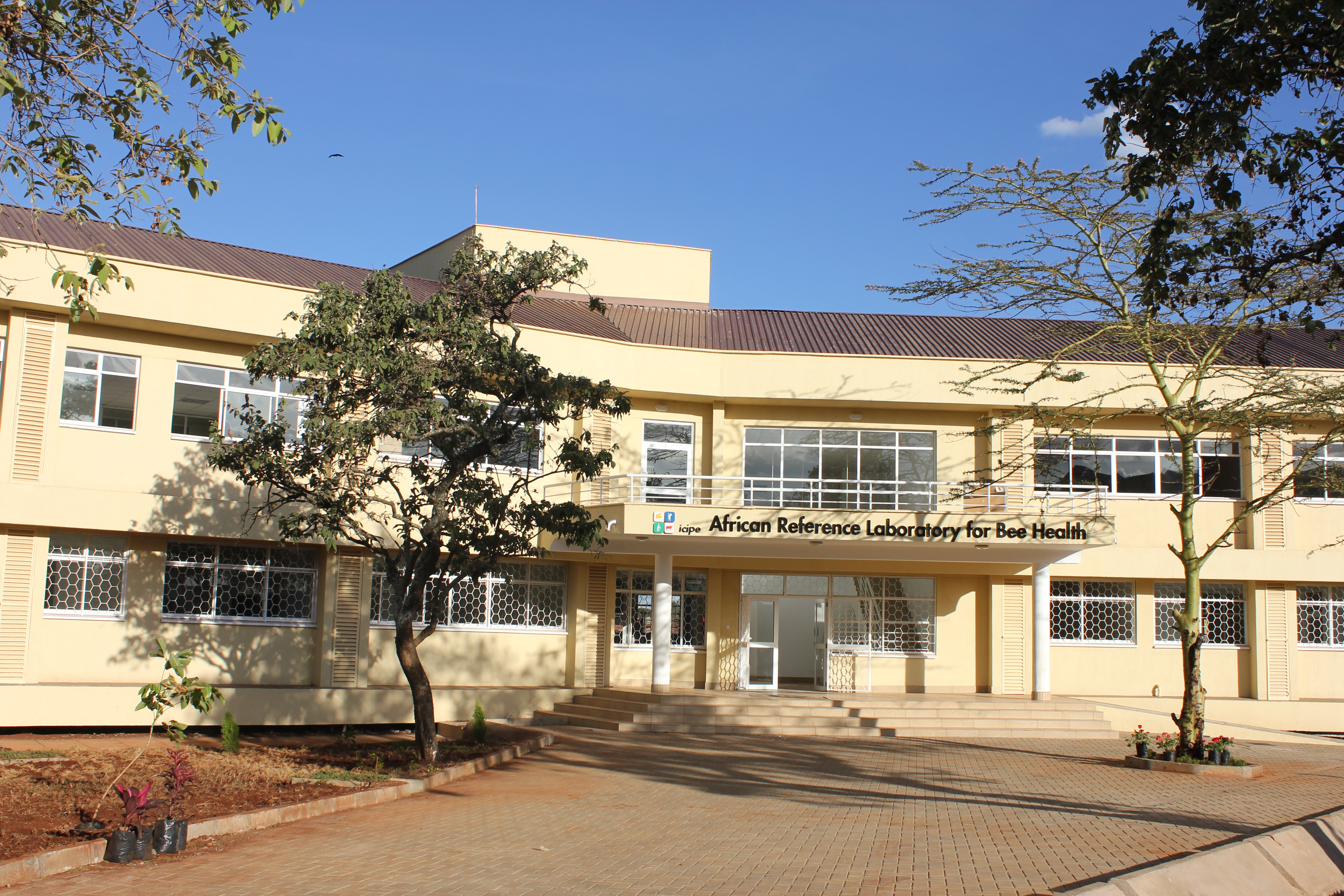 The African Reference Laboratory for Bee Health of the International Centre of Insect Physiology and Ecology (Icipe) in Nairobi, Kenya.